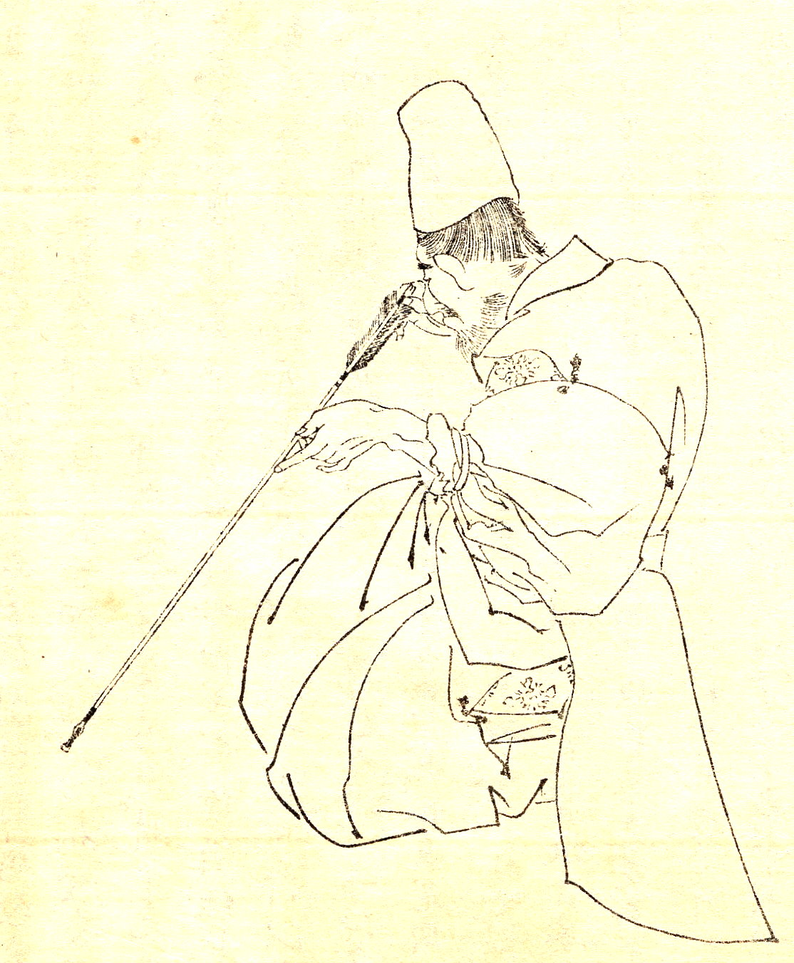 Sakanoue no Takimori(坂上瀧守) was a Japanese officer.